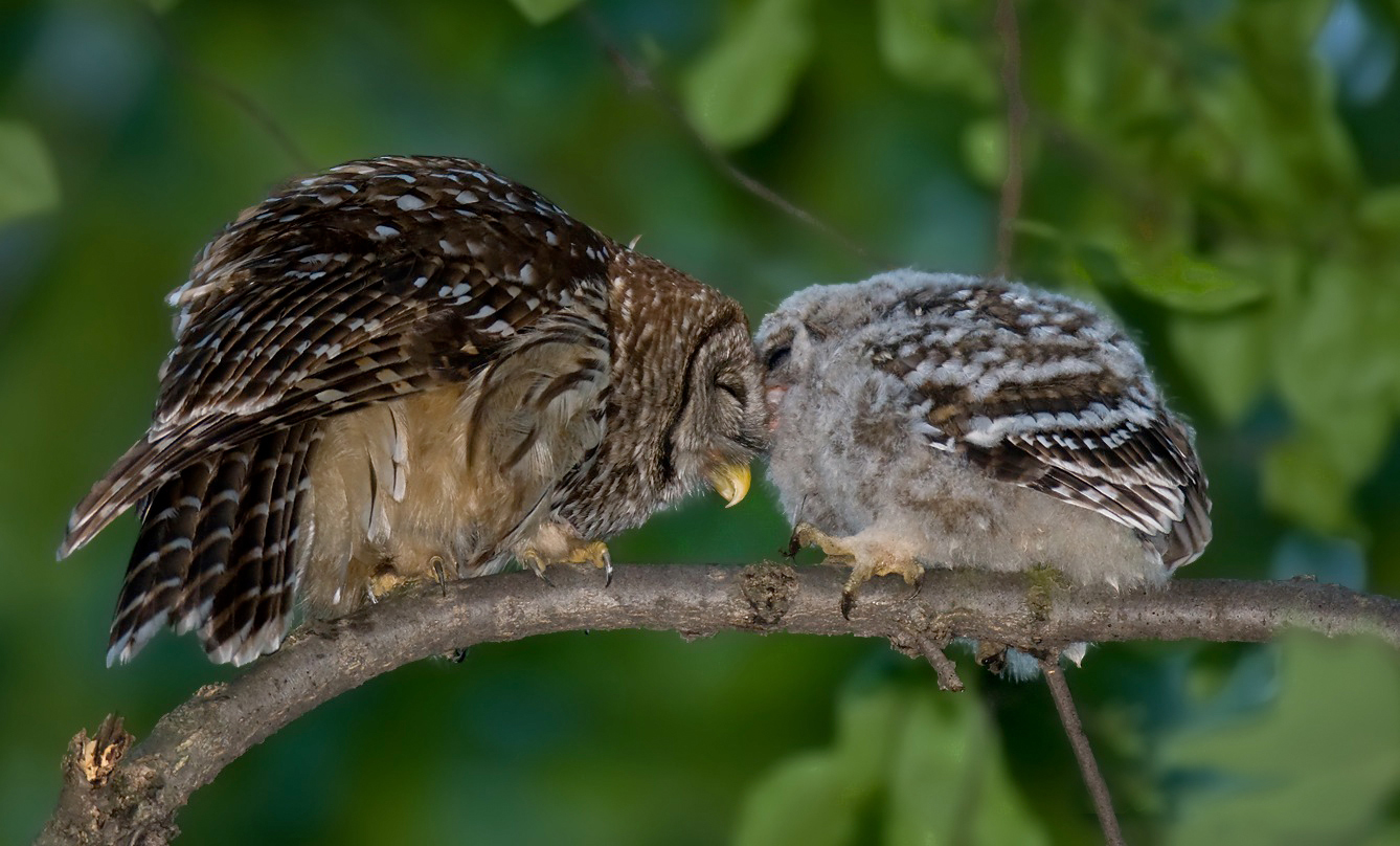 Barred owl mother and chick, just after the chick fledged